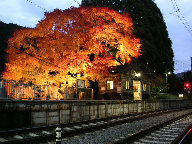 Eizan Electric Railway Kurama line Ninose Staion. A maple tree is highlited with Kibune Momiji Doro